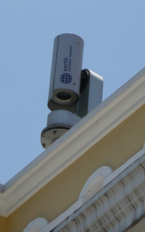 EarthTV camera in Macao.